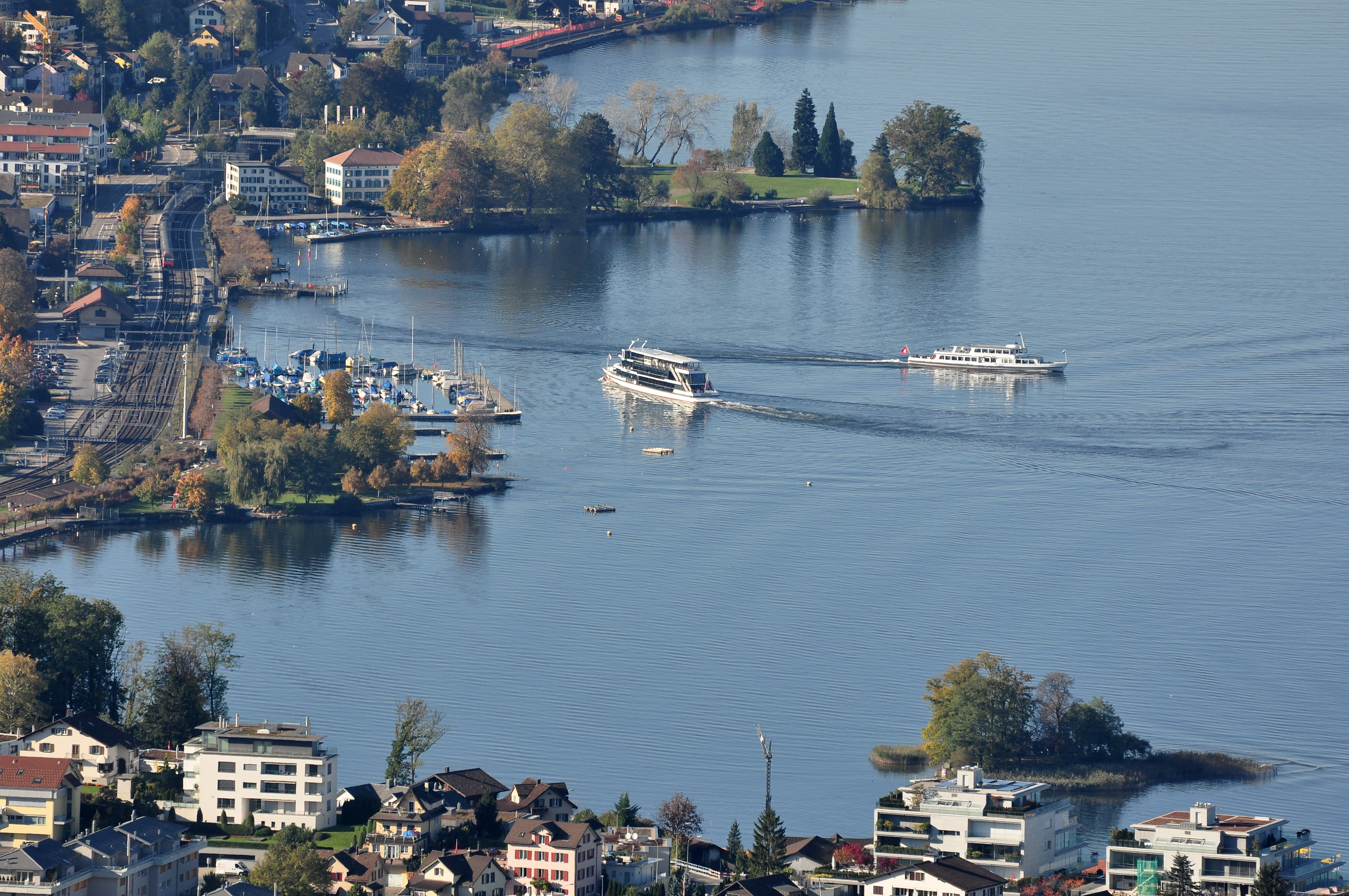 Richterswil as seen from the Etzel mountain in Switzerland towards Etzel Kulm : Richterswil on Zürichsee lakeshore, Schönenwirt island in the foreground, railway and harbour area to the left. Zürichsee-Schiffahrtsgesellschaft (ZSG) MS Säntis is sailing towards Rapperswil, ZSG MS Panta Rhei is sailing towards Richterswil.